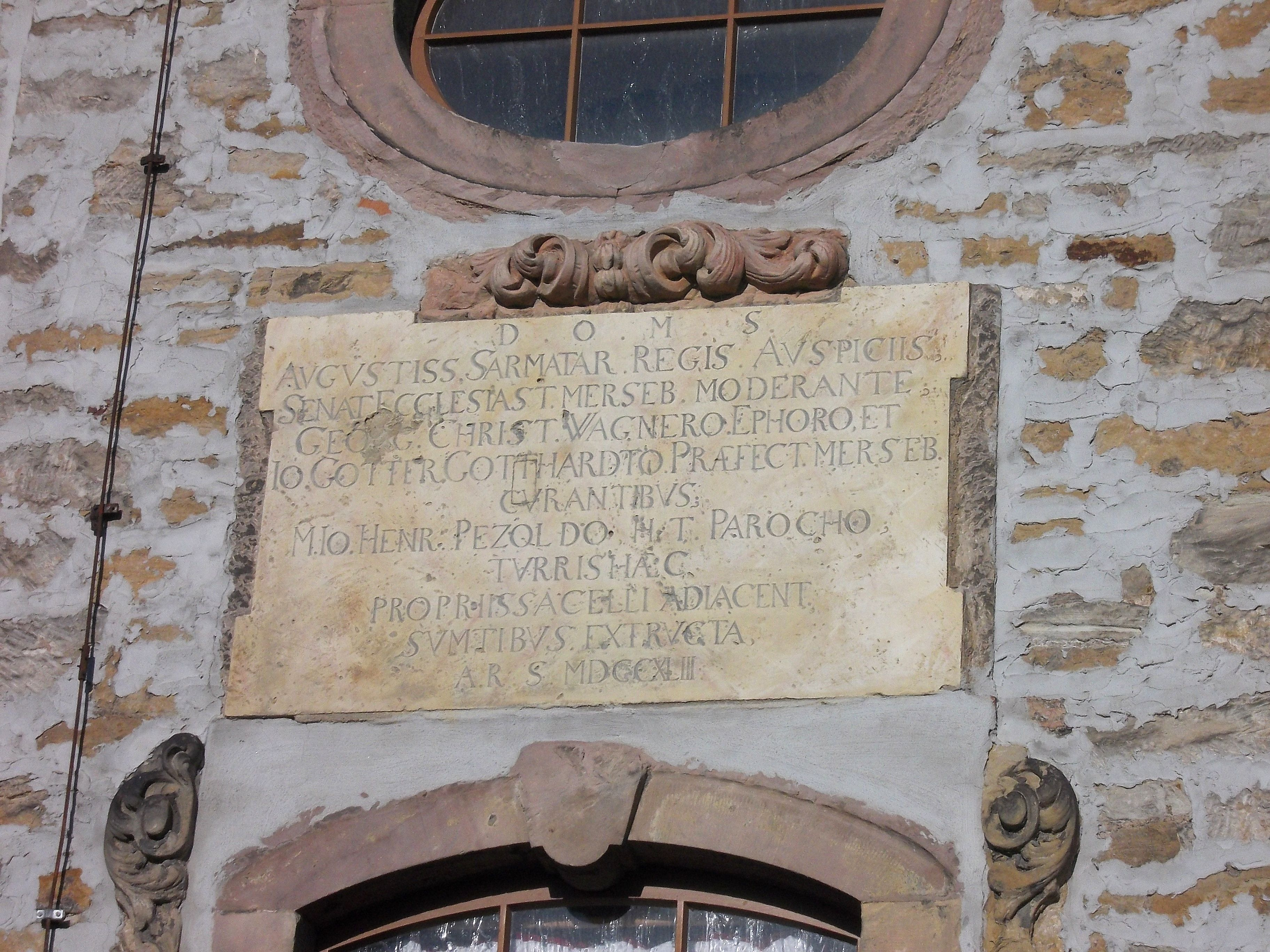 Oberbeuna church ("Hoppenhaupt Church"), Merseburg, district: Saalekreis, Saxony-Anhalt